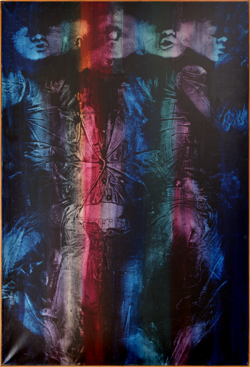 Rudolf Němec, Dance of a young man (1967), oil, email, canvas, GMU Roudnice nad Labem